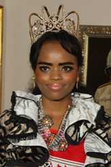 Principal Princess of Eswatini Sikhanyiso Dlamini and Seychelles President James Michel.